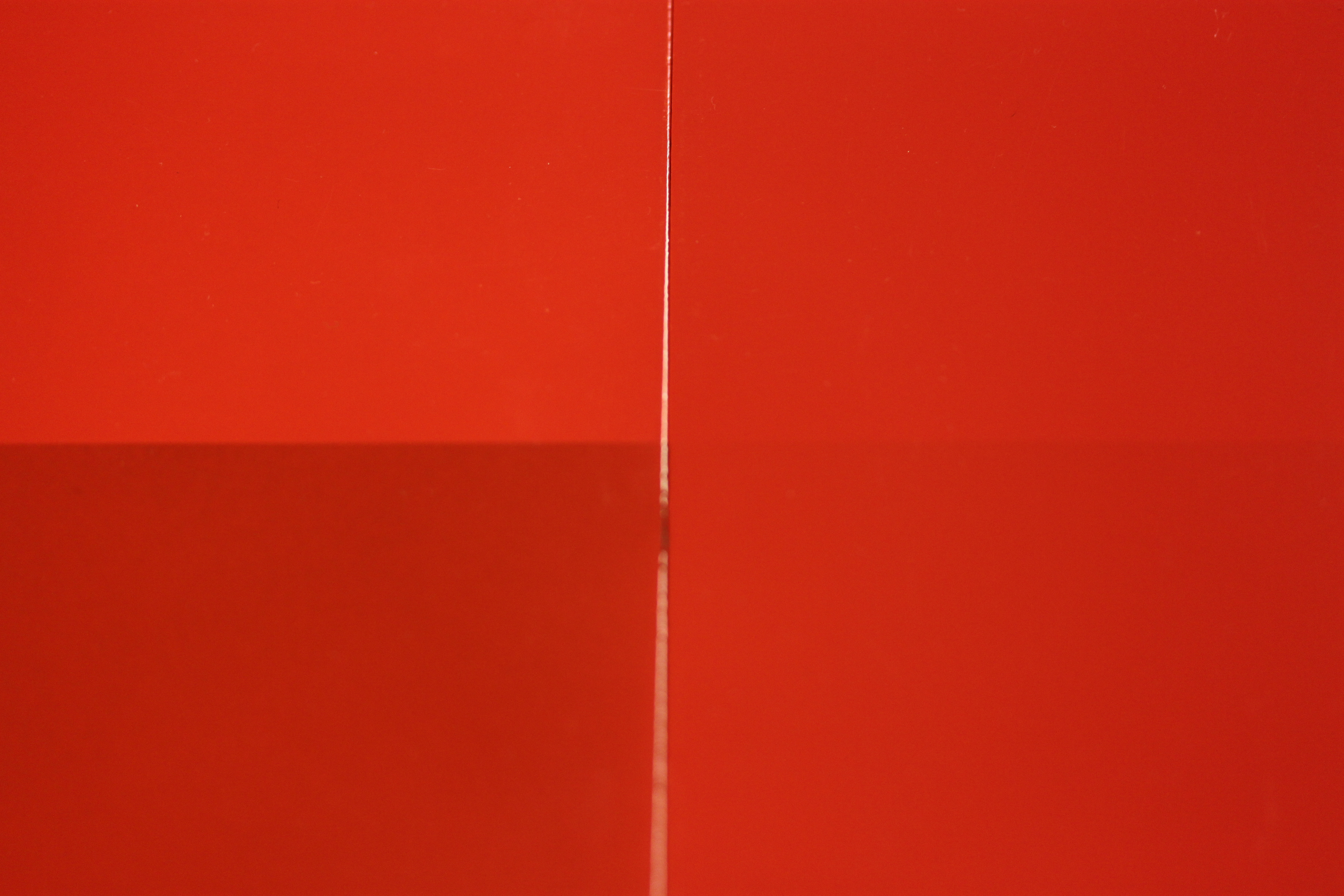 Two black/white panels coated with a pigmented coating, containing C.I. Pigment Orange 34. The right panels shows better hiding because of the higher pigment content.